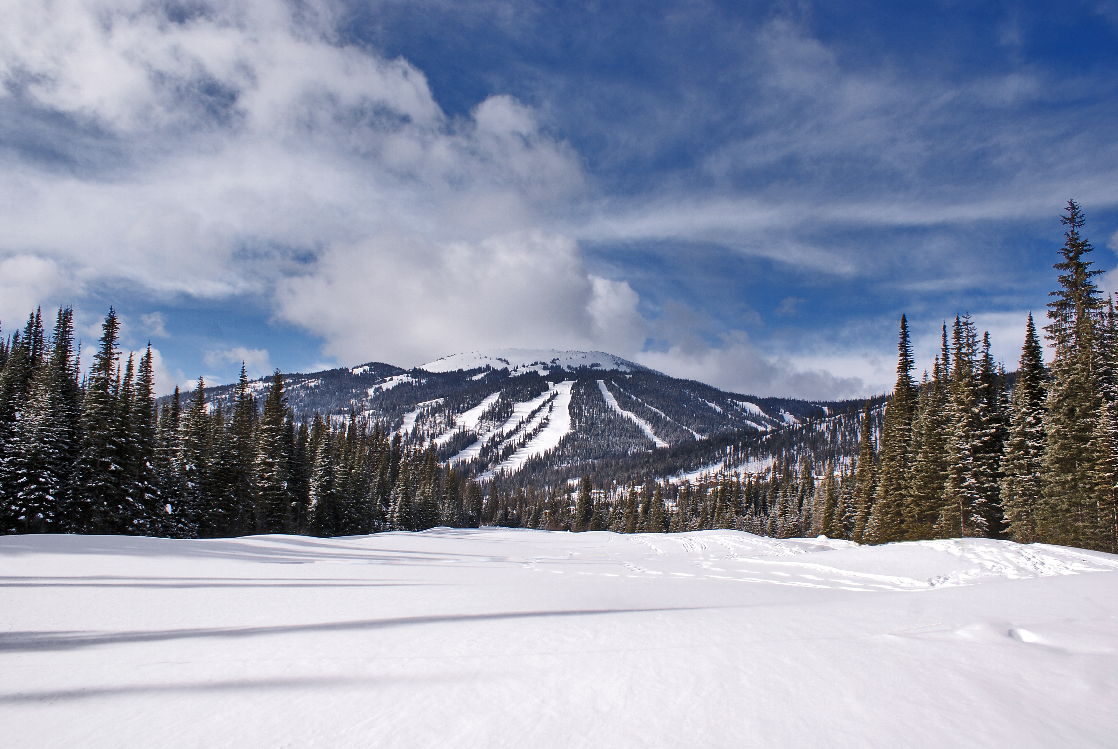 Taken from Great Grey Nordic trail at Sun Peaks. Center of the photos is roughly North-west.